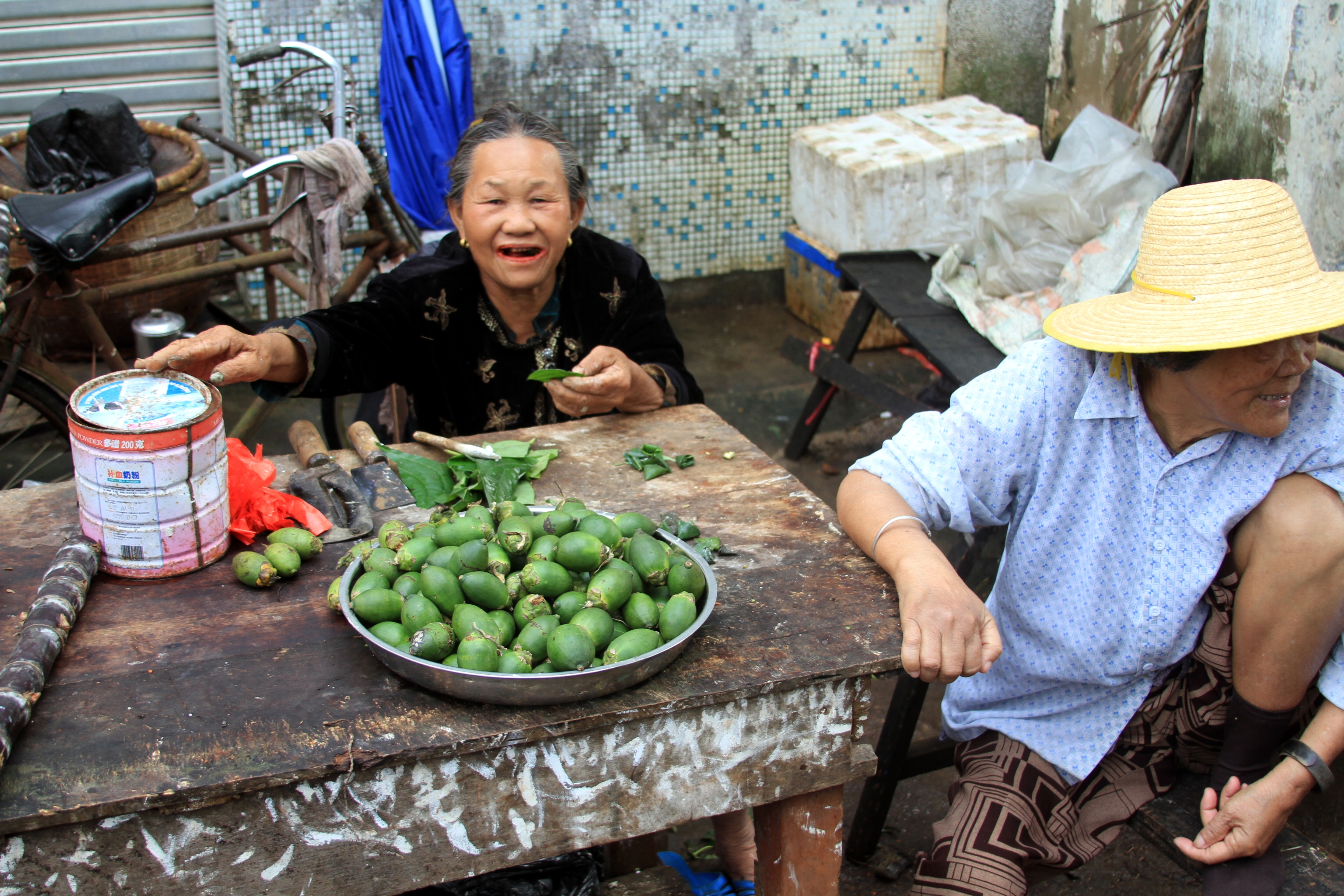 Photograph of an areca nut vendor on the island of Hainan, China.